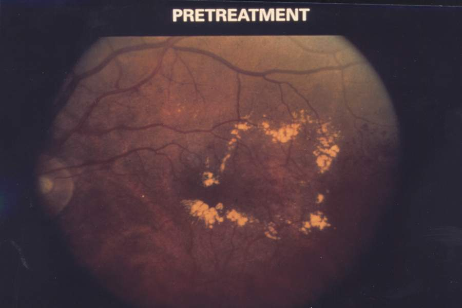 Diabetic macular edema Description: Diabetic macular edema. Credit: National Eye Institute, National Institutes of Health Ref#: EDA04